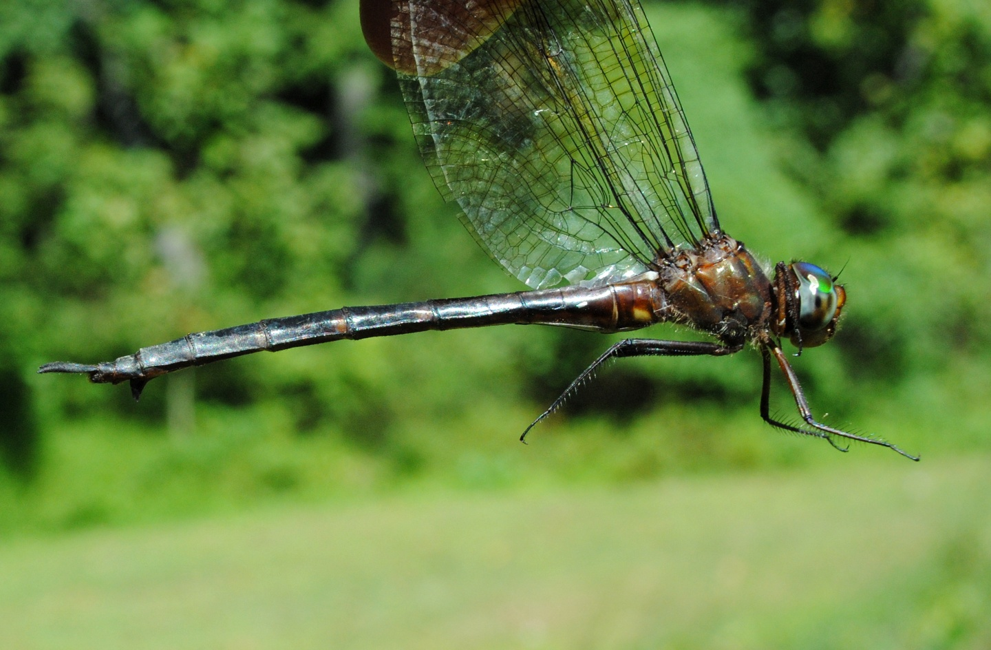 Somatochlora linearis Found 9/15/10 in Montgomery County, Maryland.